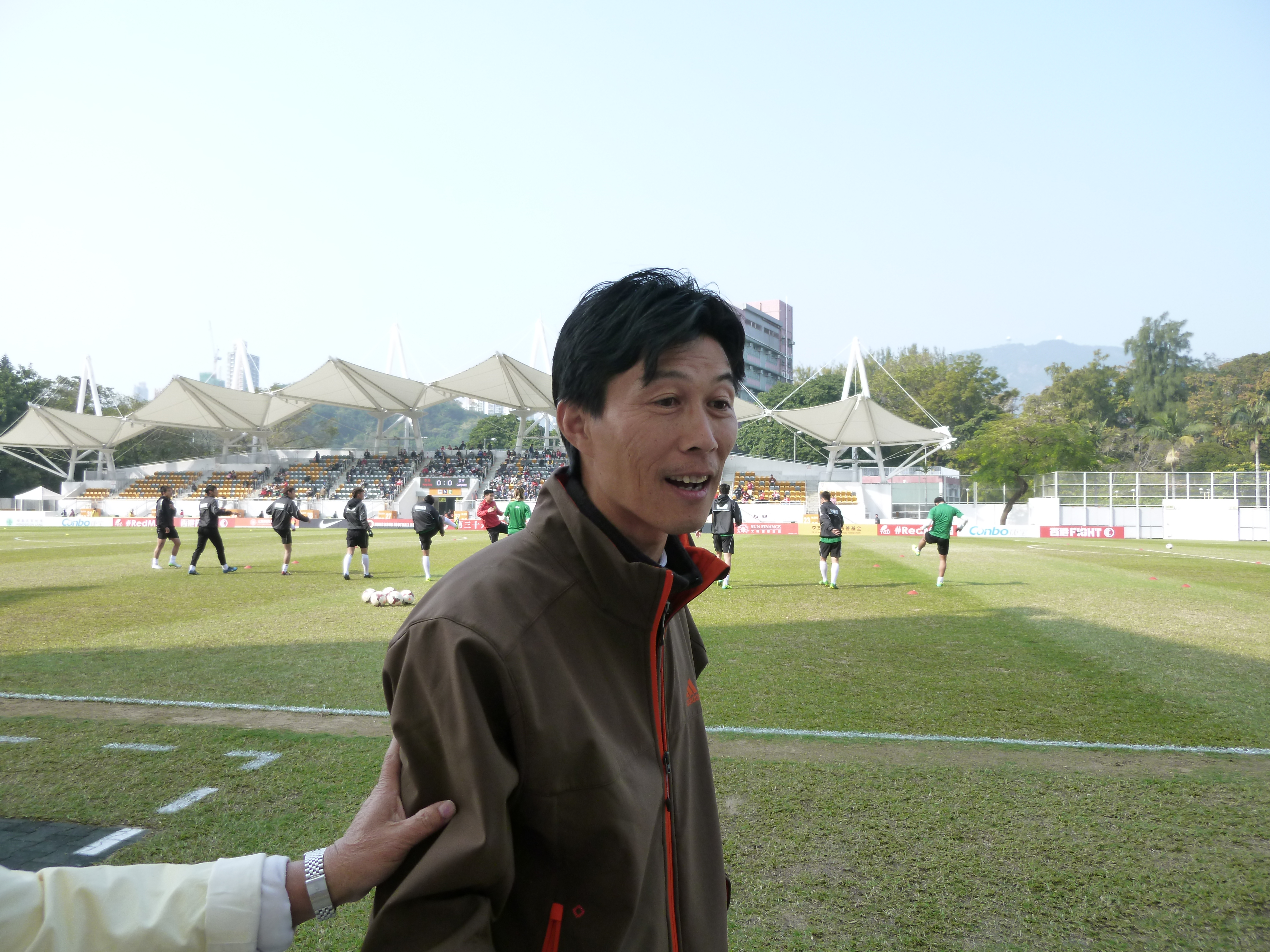 Ou Chuliang (29 Dec 2013, 36th Guangdong-HongKong Cup, Hong Kong vs Guangdong, Mongkok Stadium)中文（香港）: 區楚良 (29 Dec 2013, 第36屆省港盃, 香港 vs 廣東, 旺角大球場)